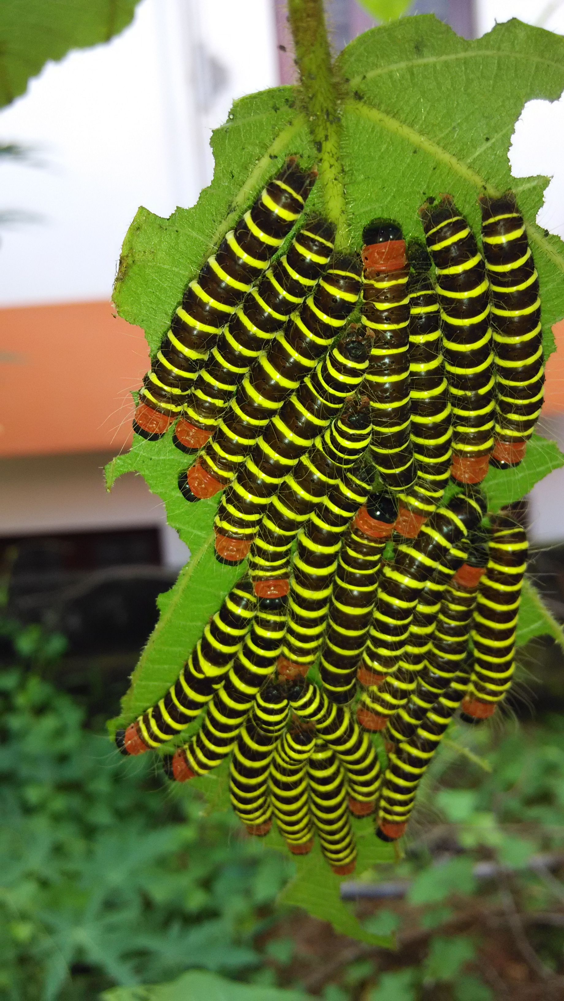 Asota plana caterpillar in Peroorkkada, Thiruvananthapuram, Kerala, India (Subspecies may be Asota plana albifera)